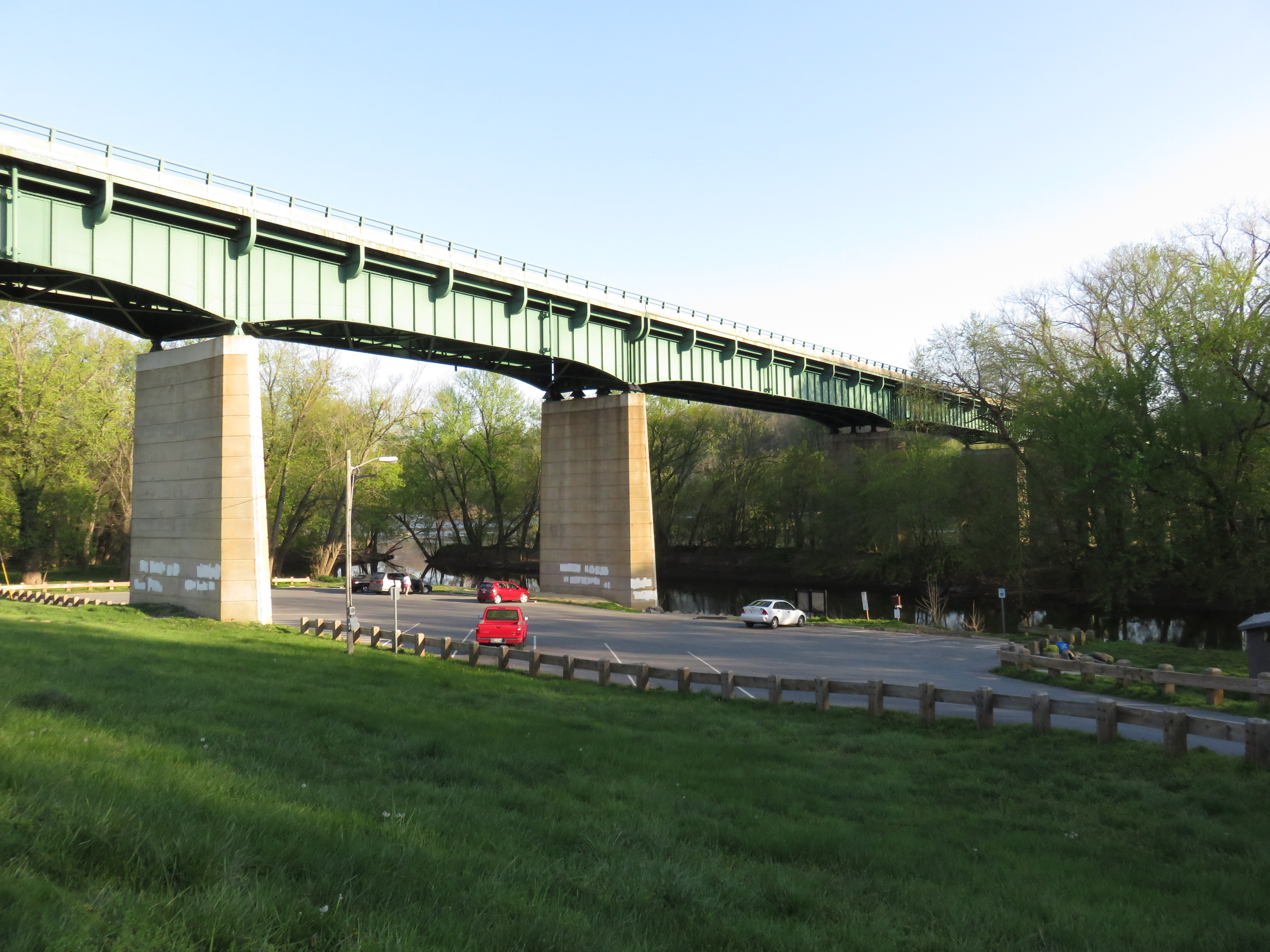 Brunswick Bridge over the Potomac River in Brunswick, Maryland in 2016